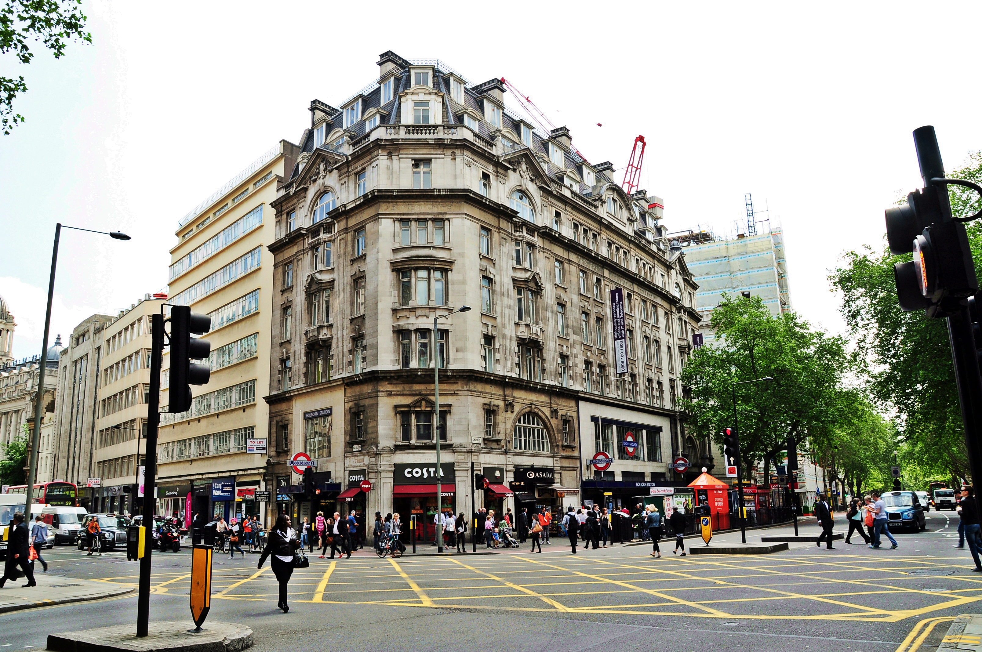 Holborn tube station, London